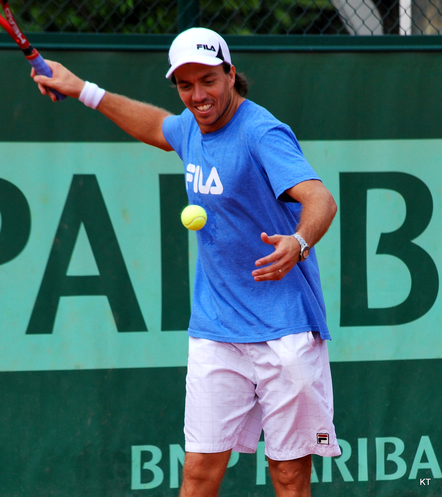 On the practice court. Day 5 of Roland Garros 2012.